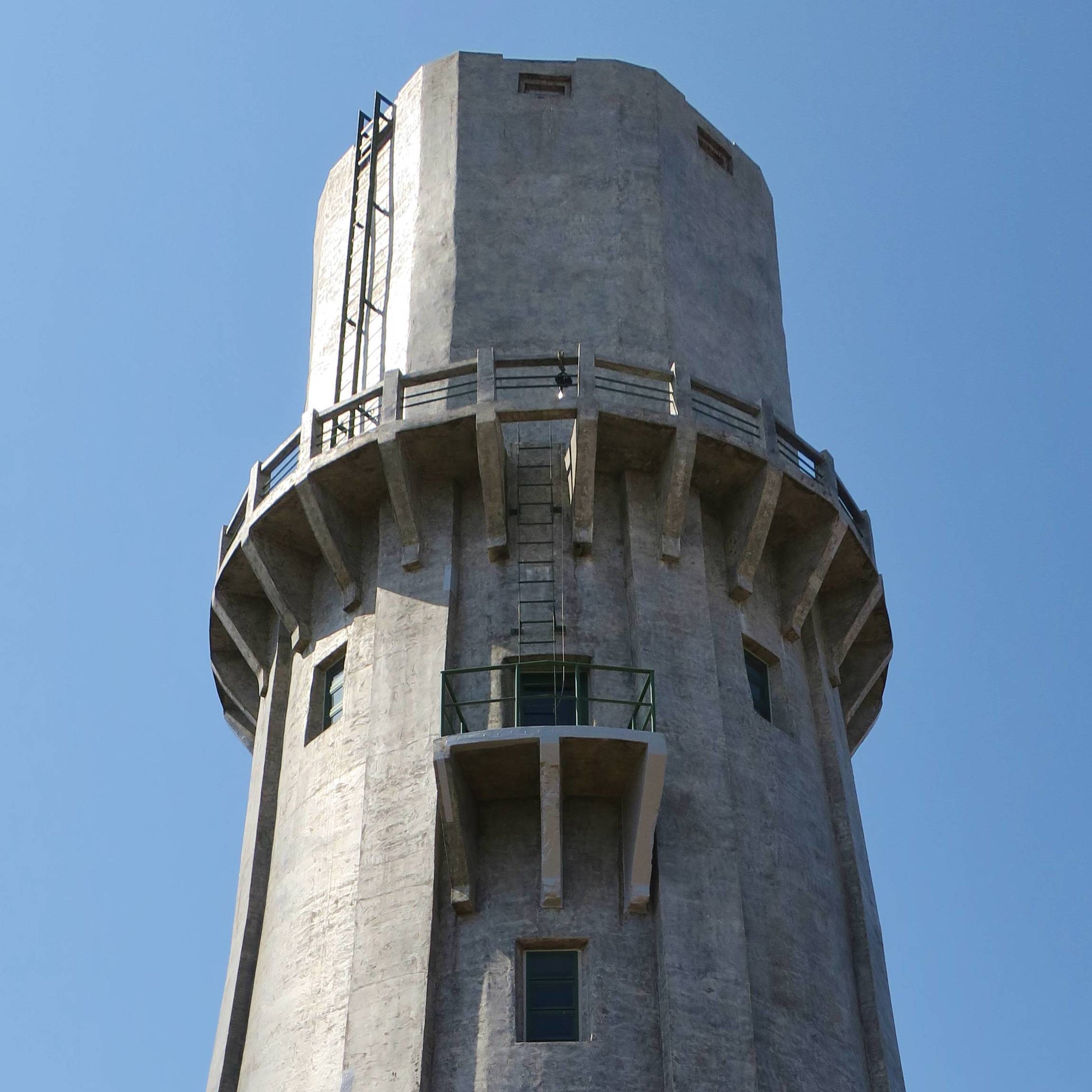 Tsubame city former water tower.